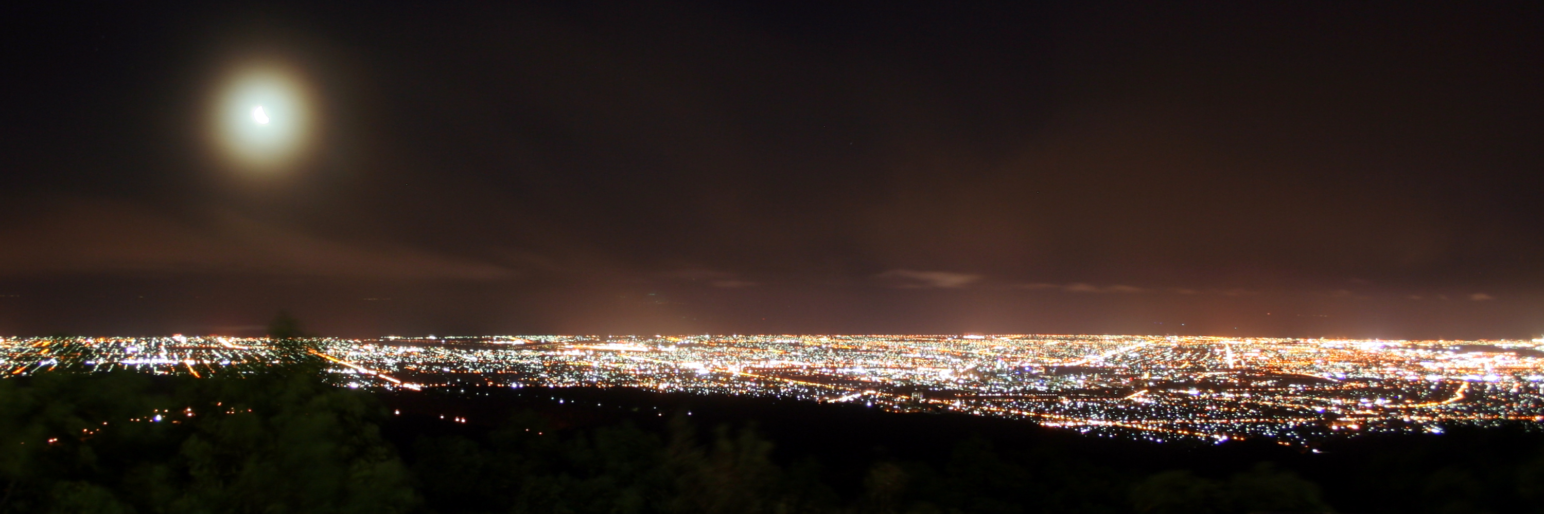 Photo taken by me, Maggas. Cropped from a larger image taken with a Canon EOS 300D.